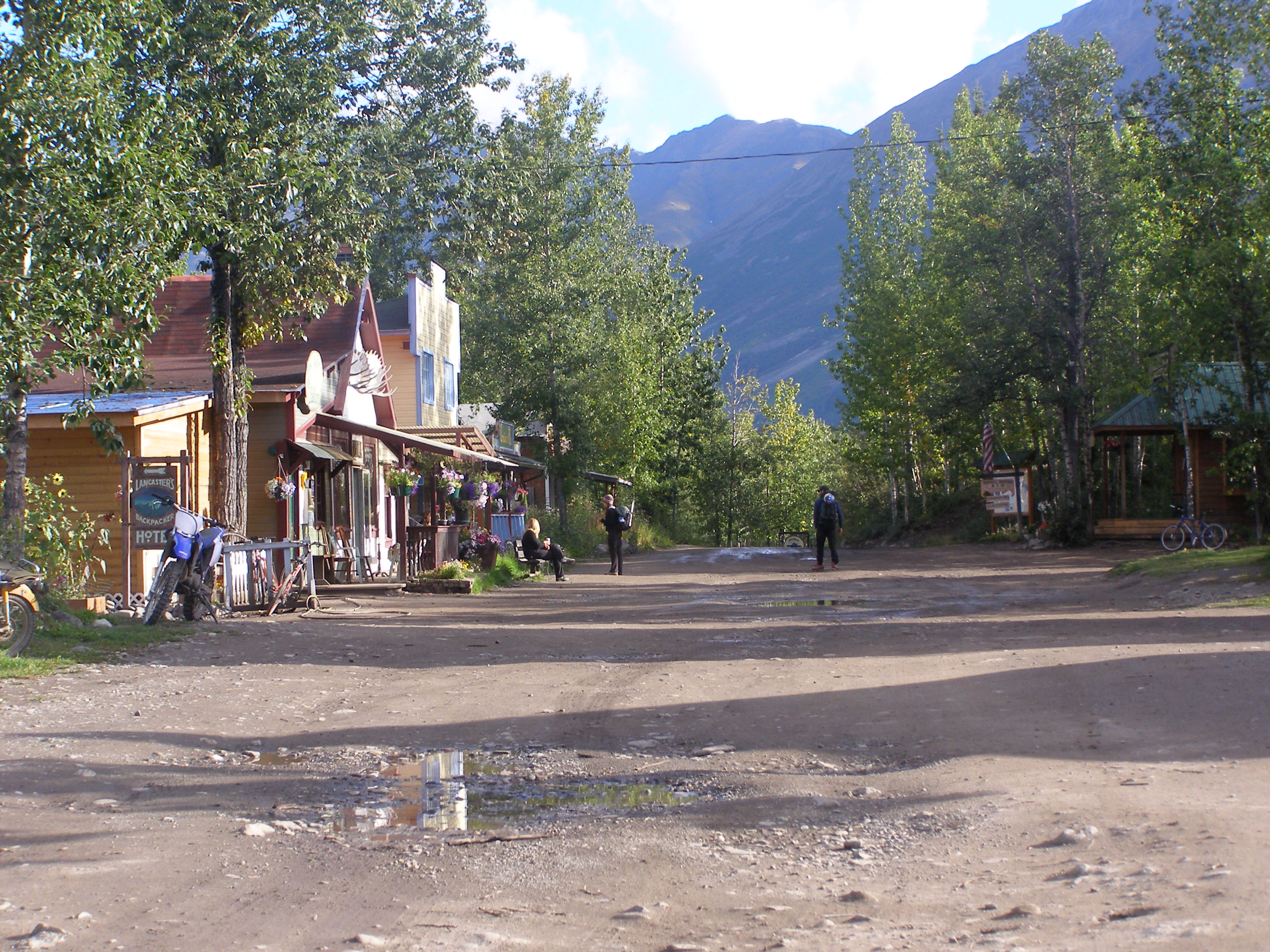 McCarthy, Alaska's main street